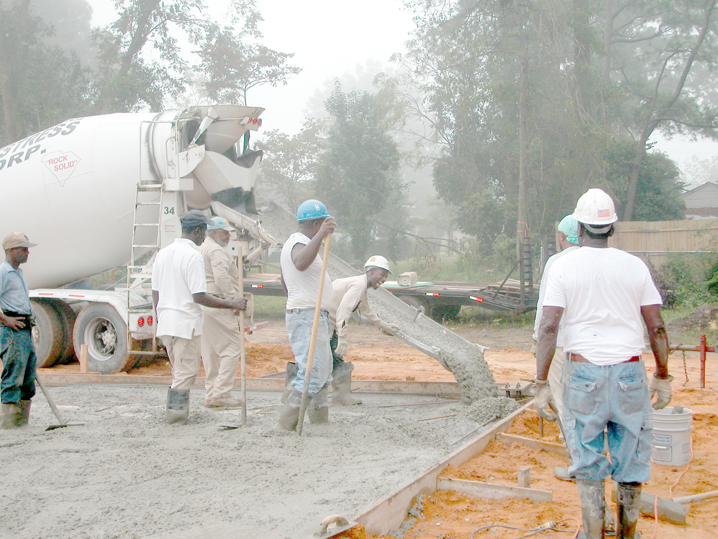 The pouring of a concrete floor for a commercial building.